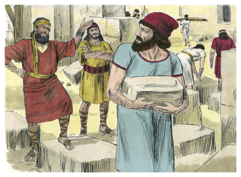 Biblical illustration of Book of Nehemiah Chapter 2